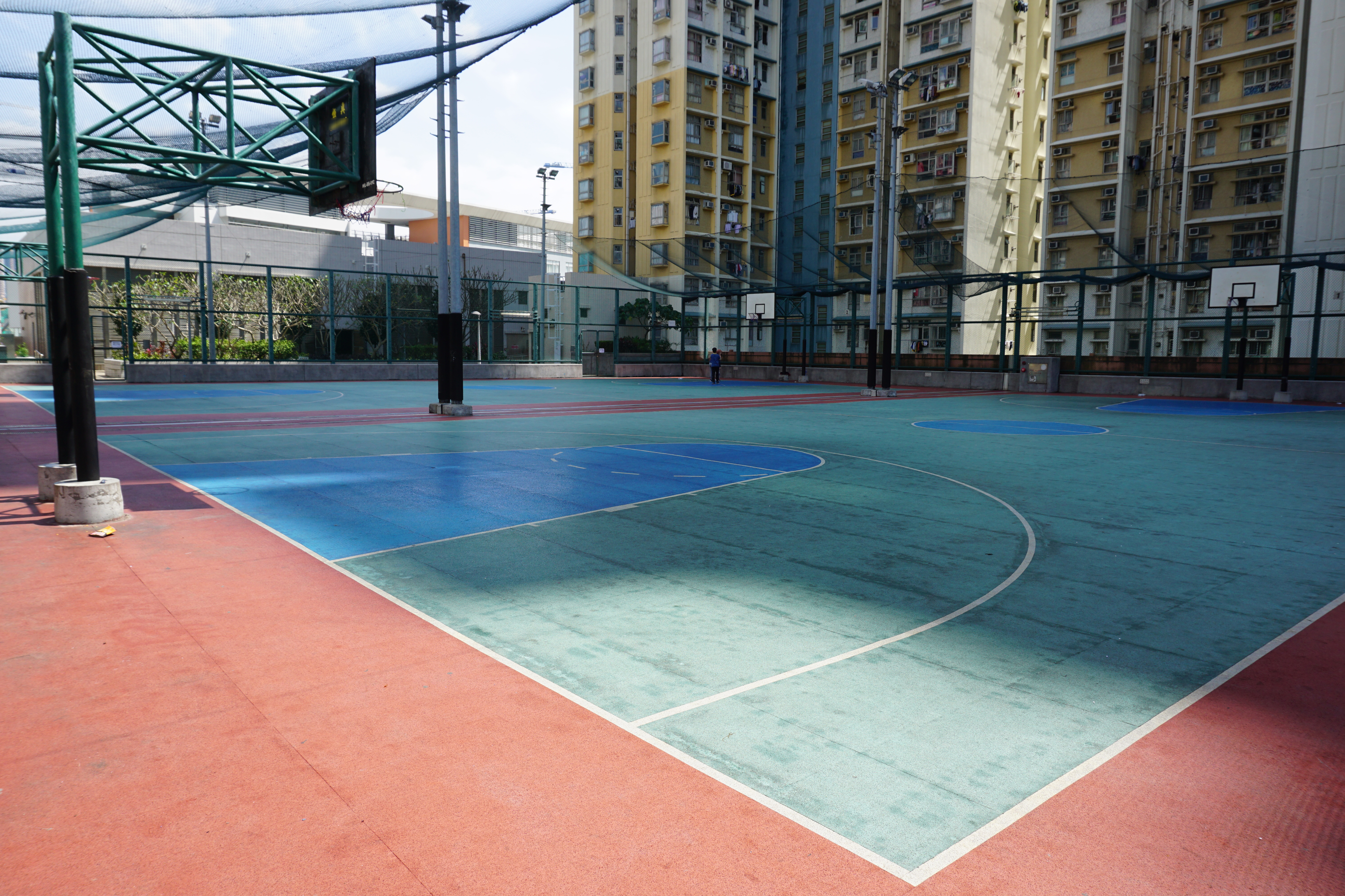 Hoi Lai Estate in Lai Chi Kok, Hong Kong.